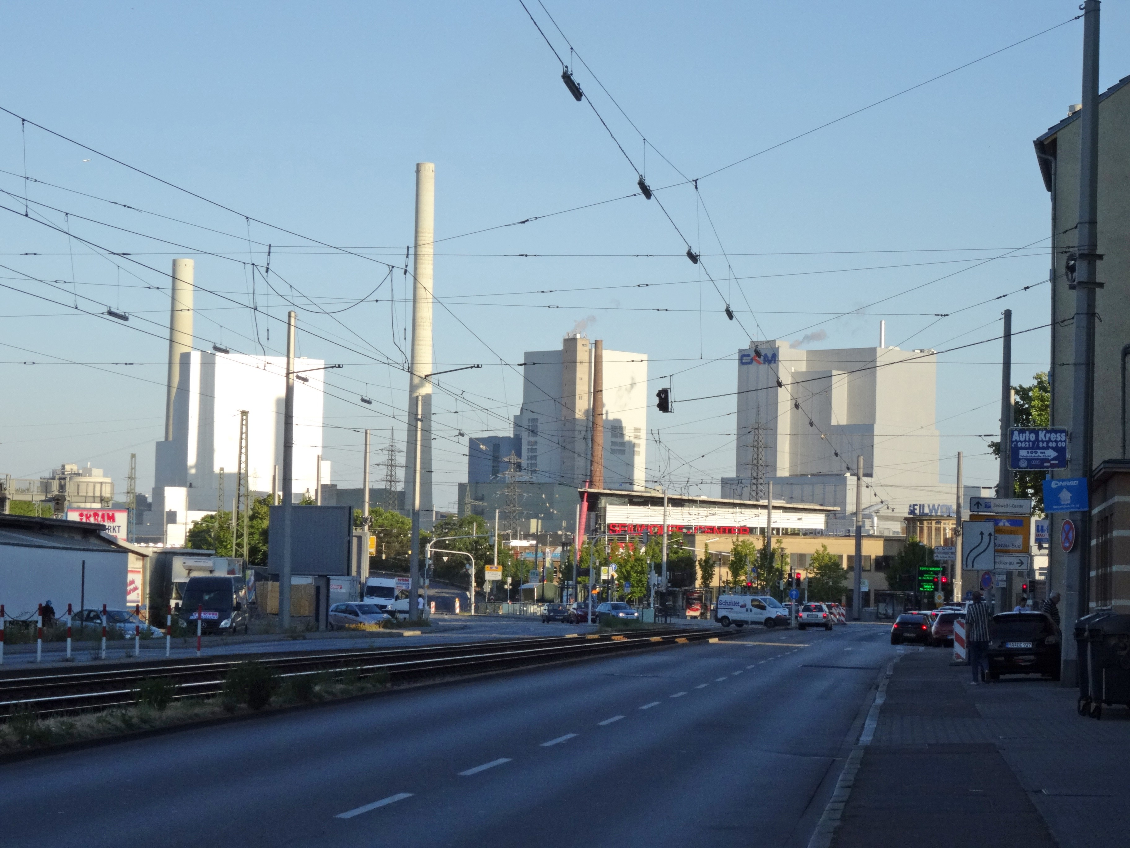 Large power plant, Mannheim (Germany), blocks 9, 7, 8 (left to right) view from Neckarauer Str.